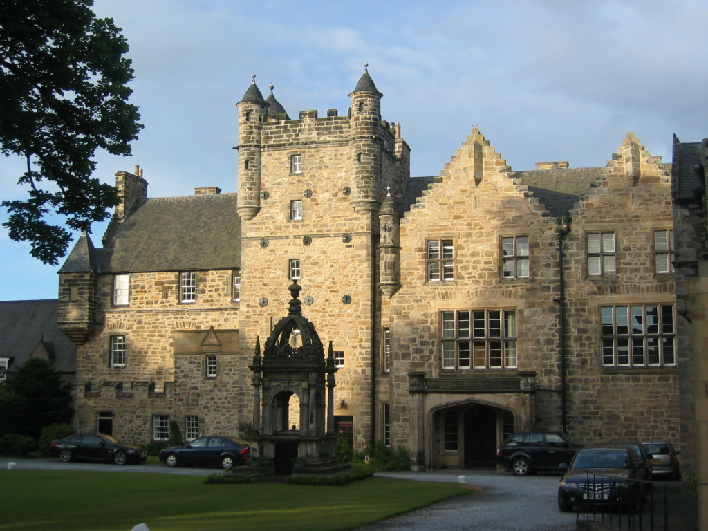 Pinkie House, Musselburgh, East Lothian, Scotland